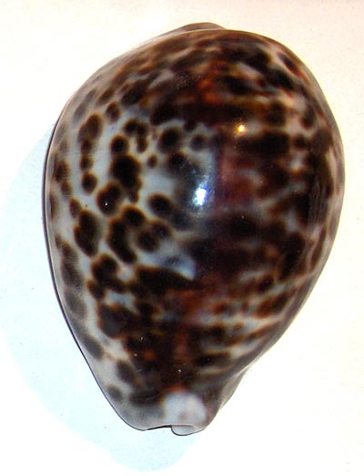 Cypraea Tigris, Porcelaine Tigre Author : me (clmiadfl) This Sea shell is part of my collection